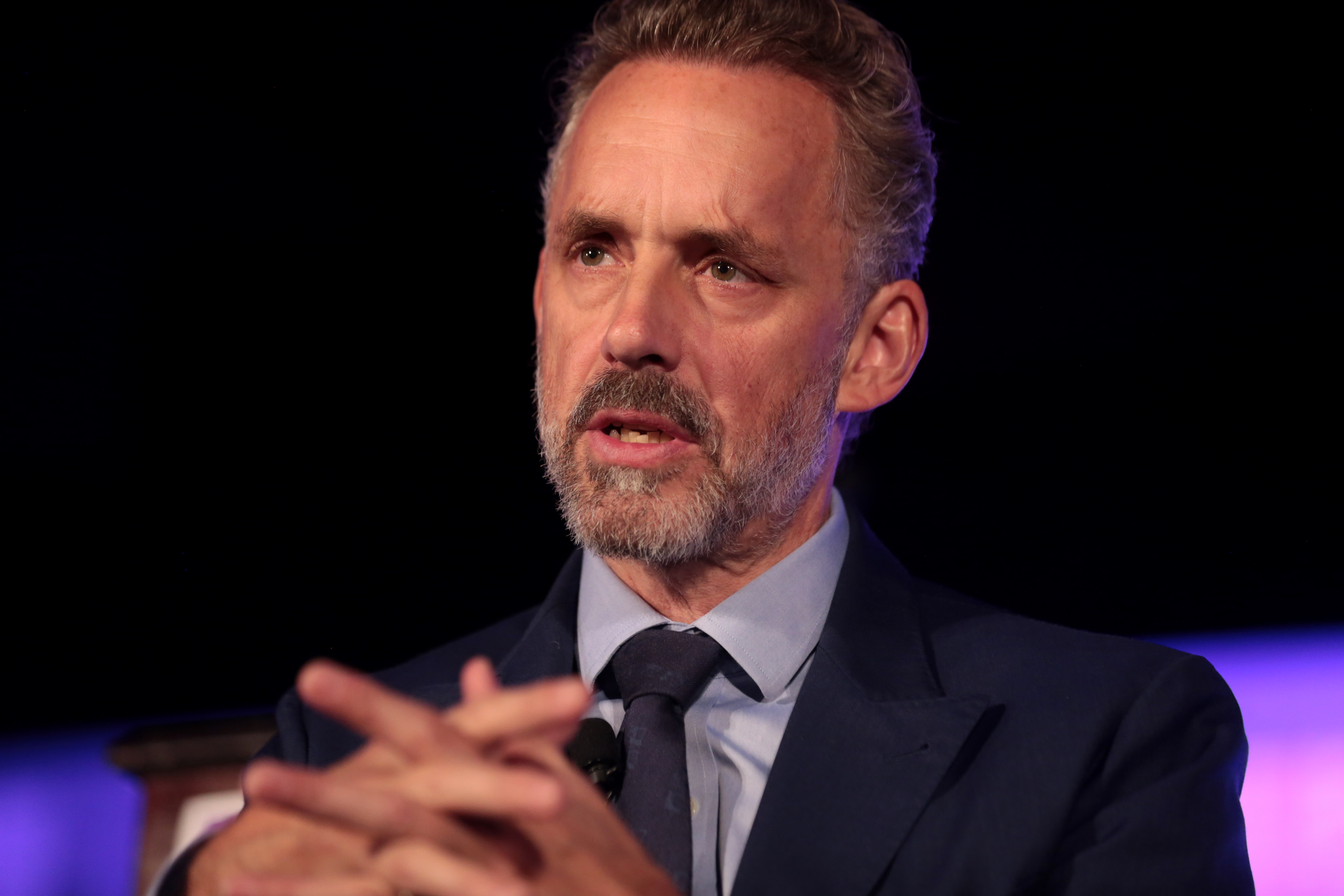 Jordan Peterson speaking with attendees at the 2018 Young Women's Leadership Summit hosted by Turning Point USA at the Hyatt Regency DFW Hotel in Dallas, Texas.